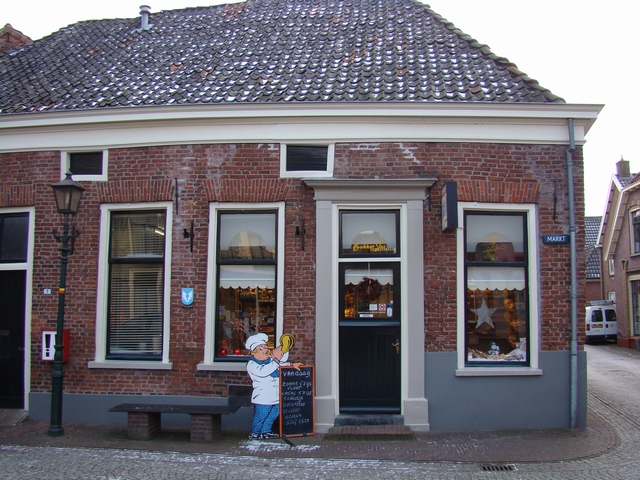 Monumental Bakery at Bredevoort, Markt 7 (Netherlands)